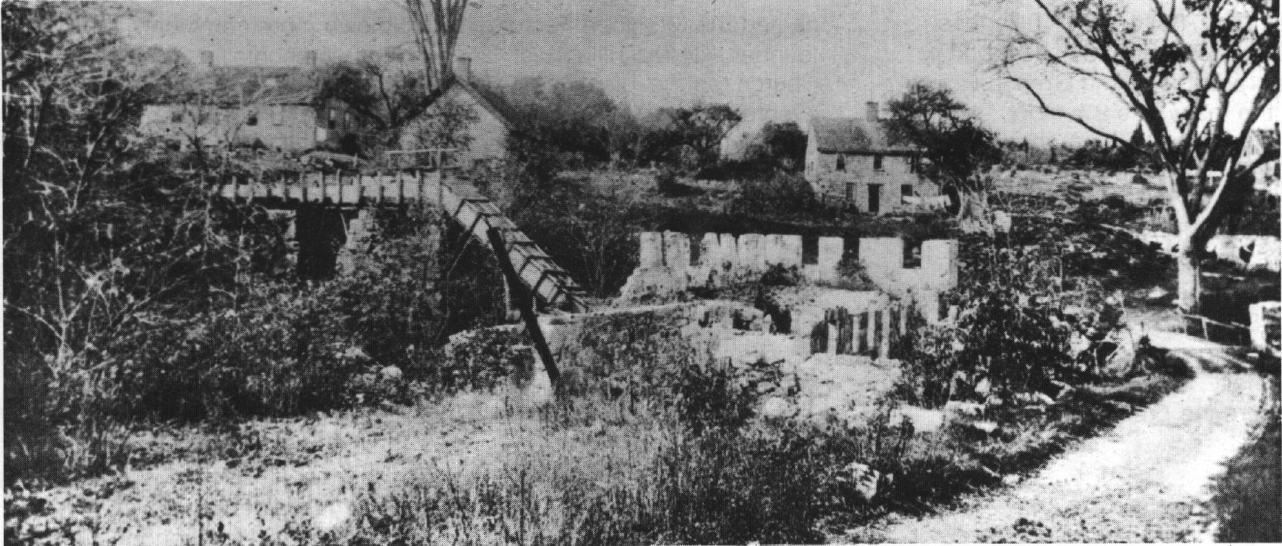 Black and white photograph of factory buildings near a dirt road at the Tillinghast mill site, which is now part of Frenchtown Park in Rhode Island, USA